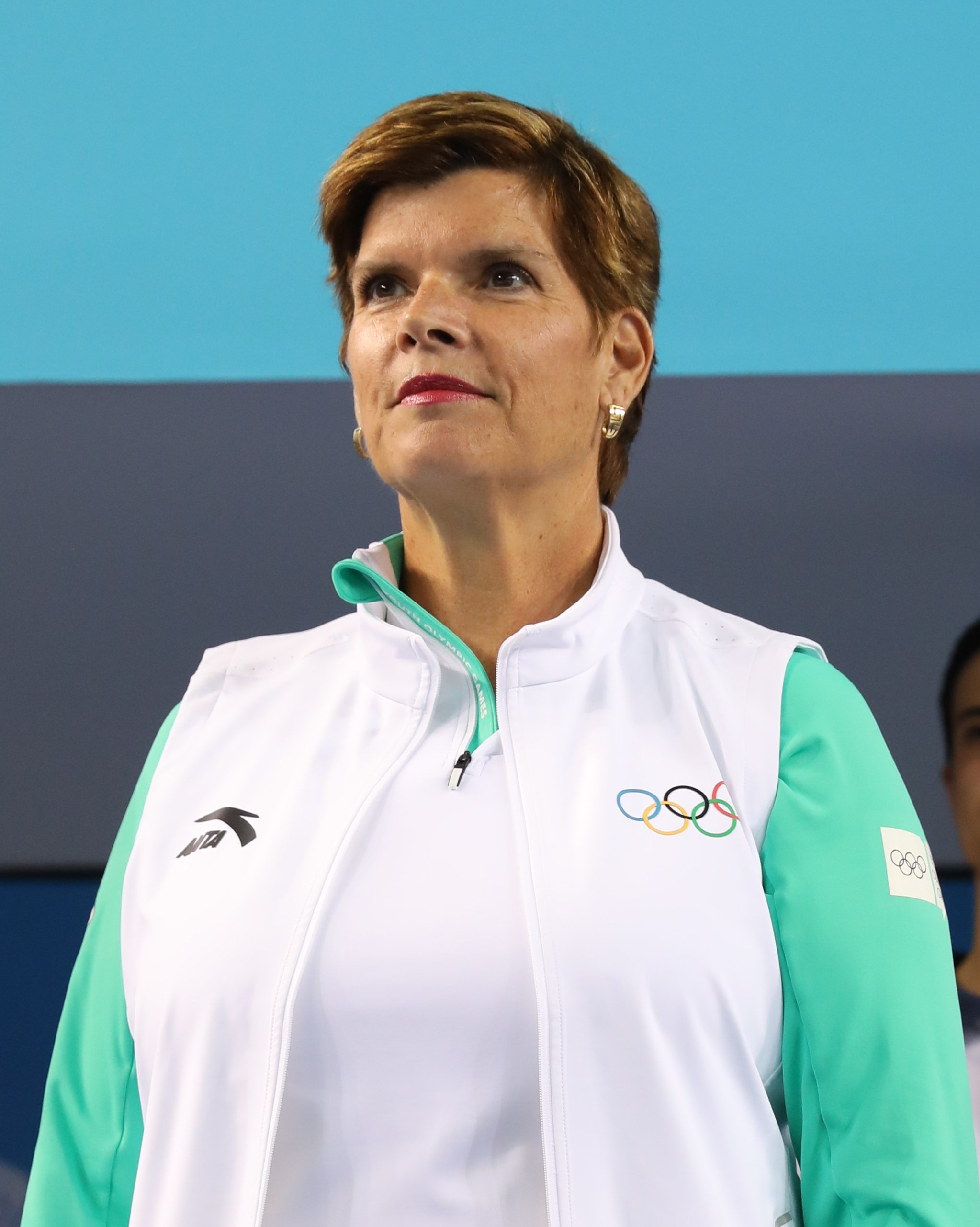 Diving, Girls 10m platform: Victory ceremony